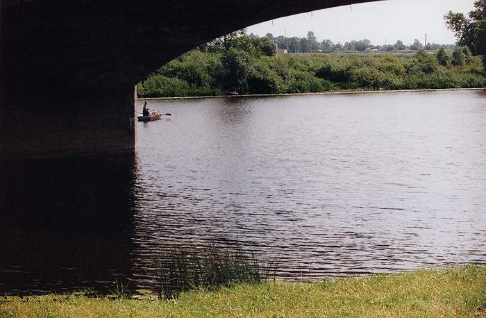 Lielupe, a river in Latvia